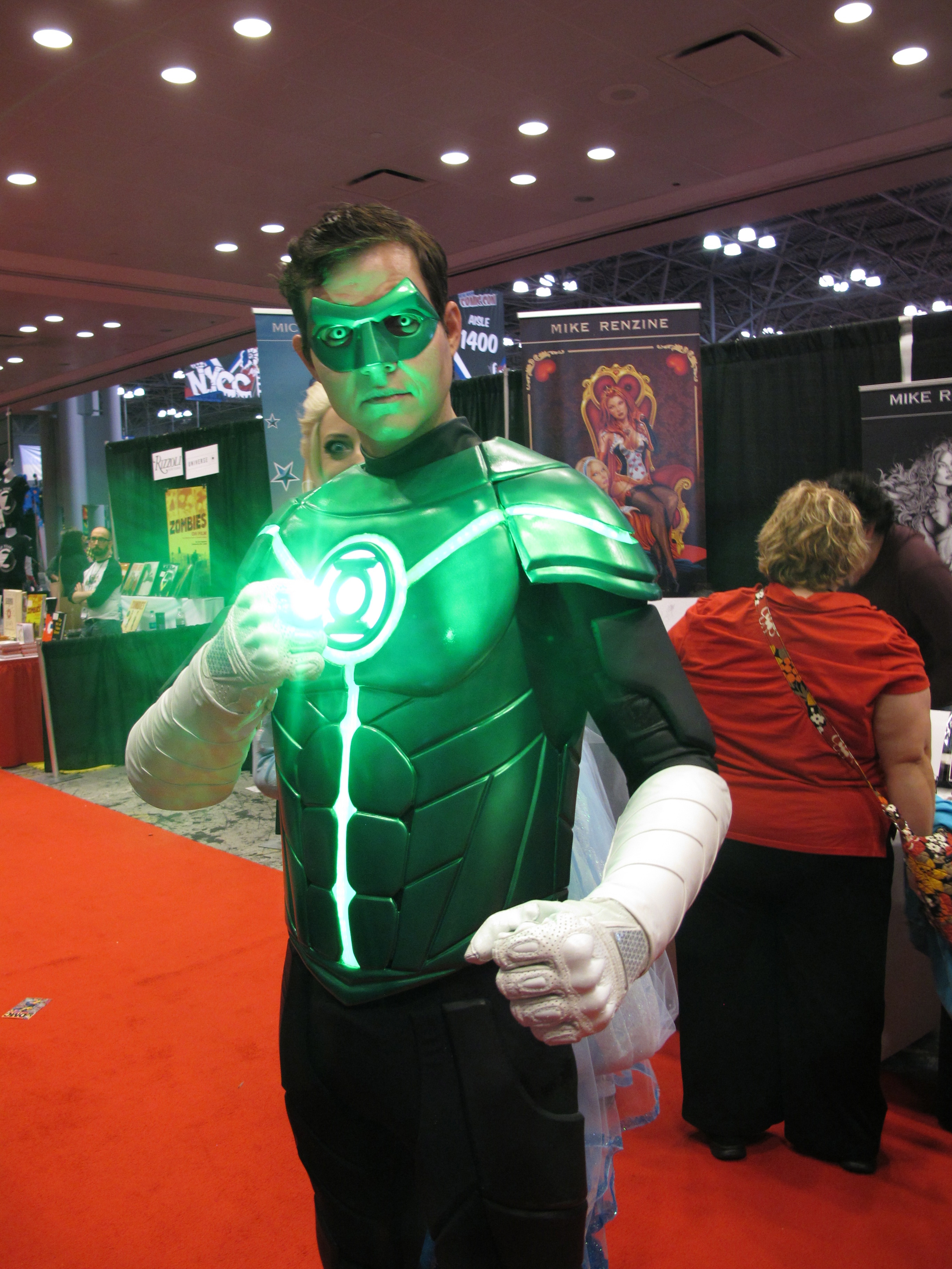 Green Lantern Cosplay at the 2014 New York Comic Con.